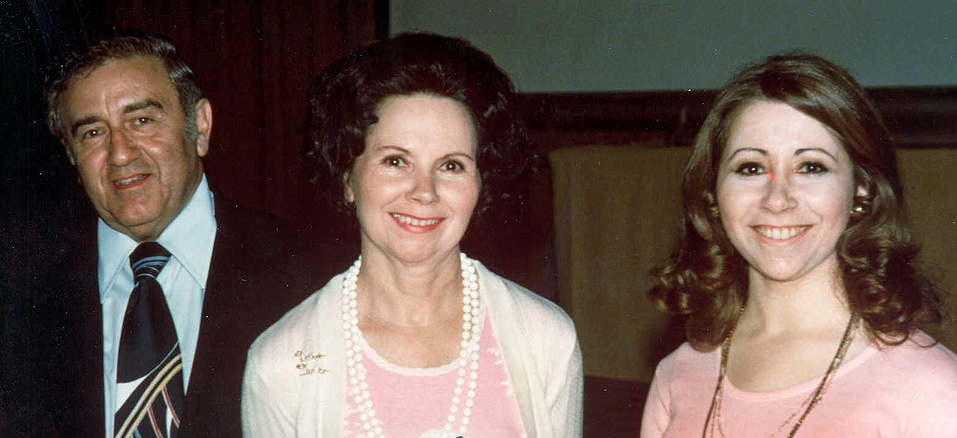 Photograph of (f.l.t.r.) Superman co-creator and writer Jerry Siegel, his wife Joanne Siegel (who served as model for the Lois Lane character) and their daughter Laura Siegel. Photo taken 1976 at the San Diego Comic Con.